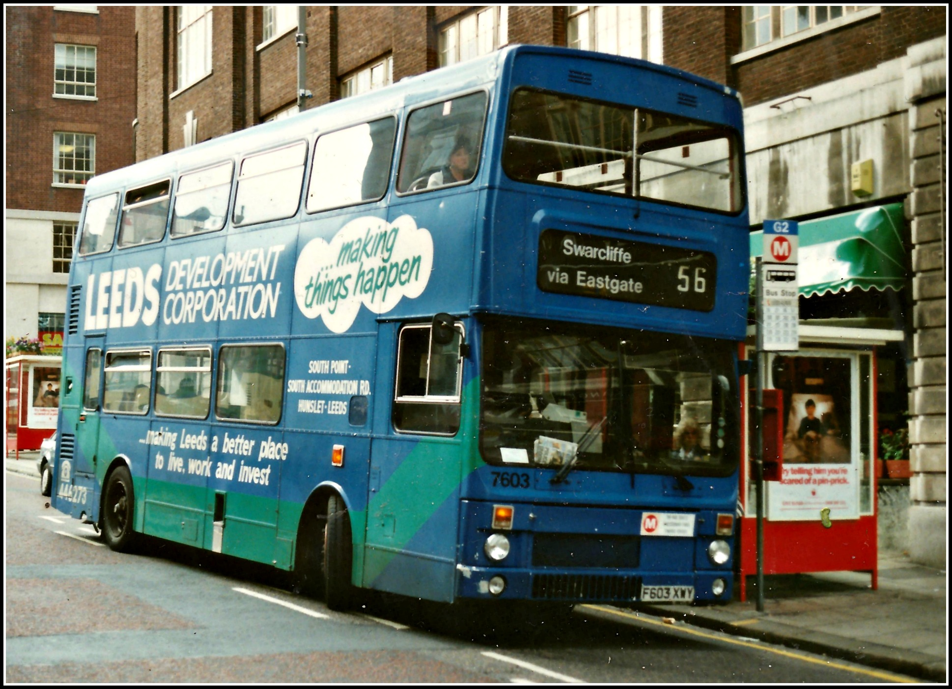 New in 1988, MCW Metrobus 7603 is seen here in Leeds carrying allover advetising for Leeds development Corporation.